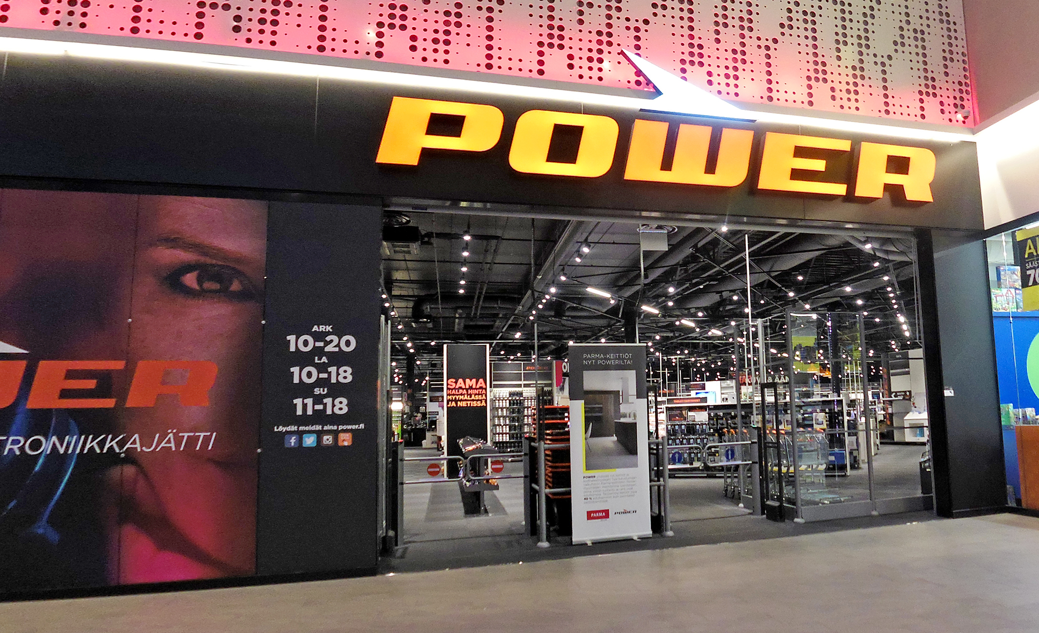 Power store in Seppä shopping center in Jyväskylä.